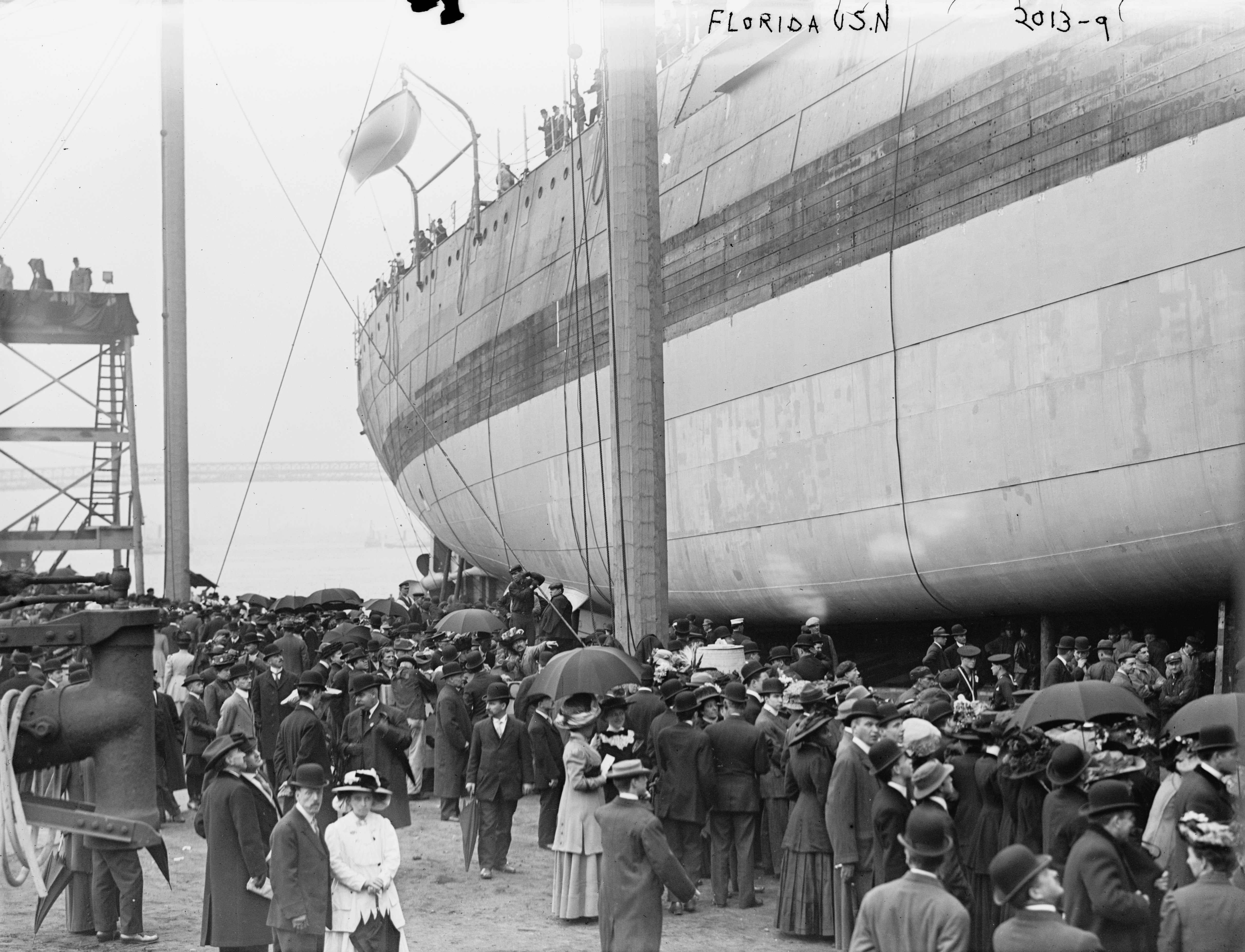 Title: "Florida" U.S.N. Abstract/medium: 1 negative : glass ; 5 x 7 in. or smaller.